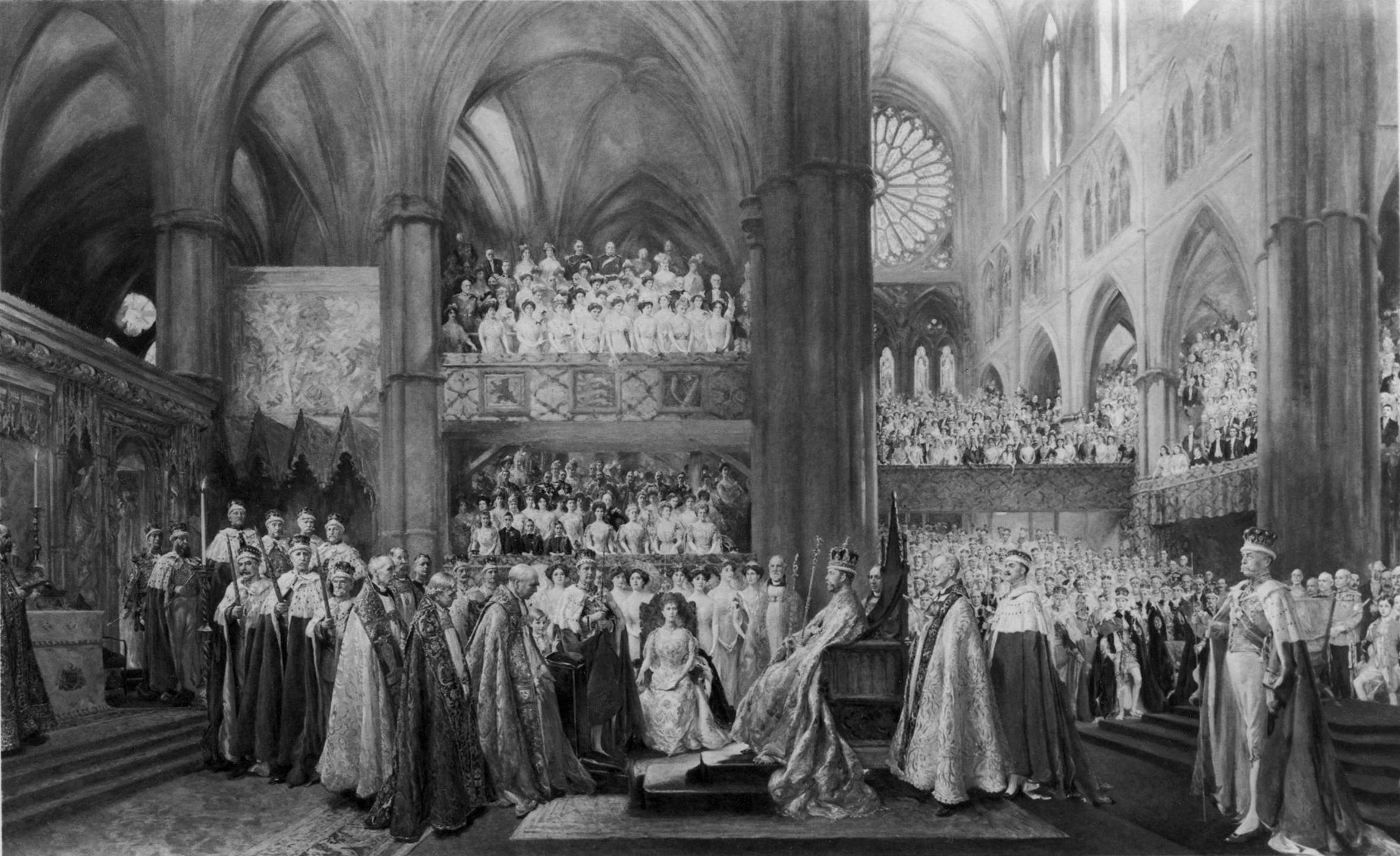 published 1912.